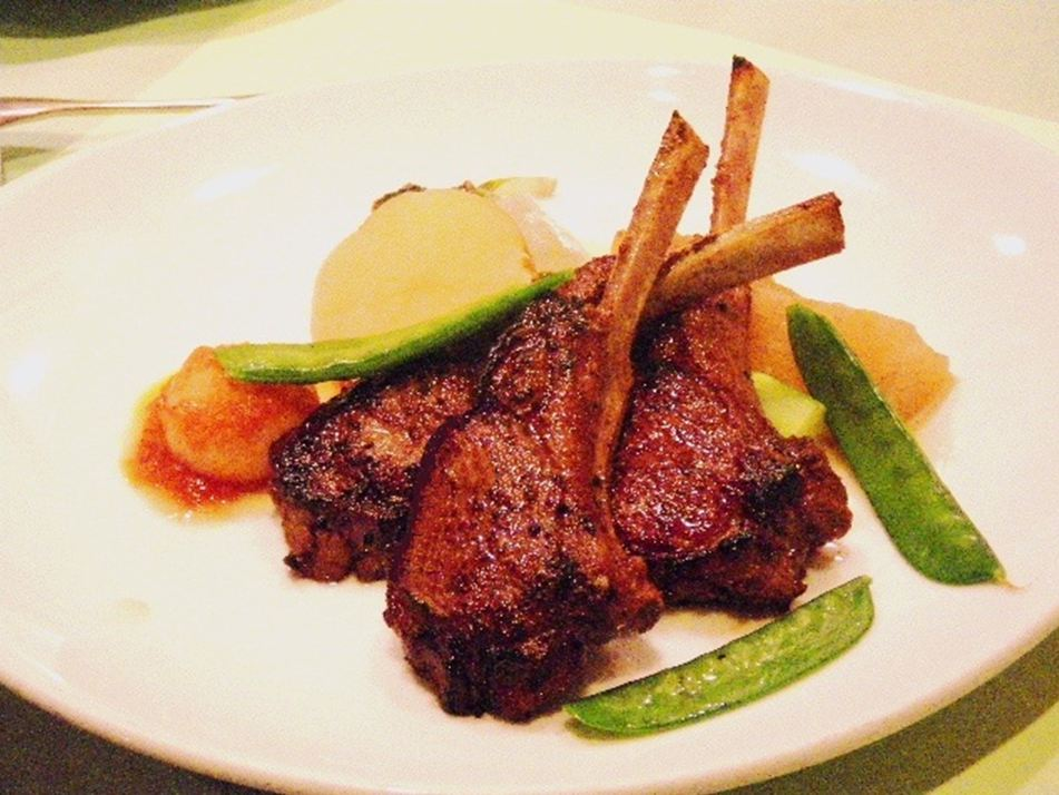 lamb